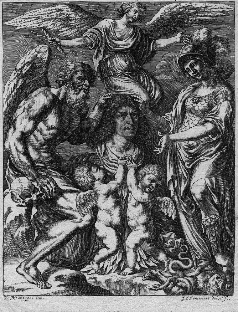 Georg Christoph Eimmart, self-portrait supported by two putti, flanked by an angel and Athena etching 30.1 x 22.9 cm inscribed l.l.: D. Neuberger inv. inscribed l.r.: G.C. Eimart del. et sc.